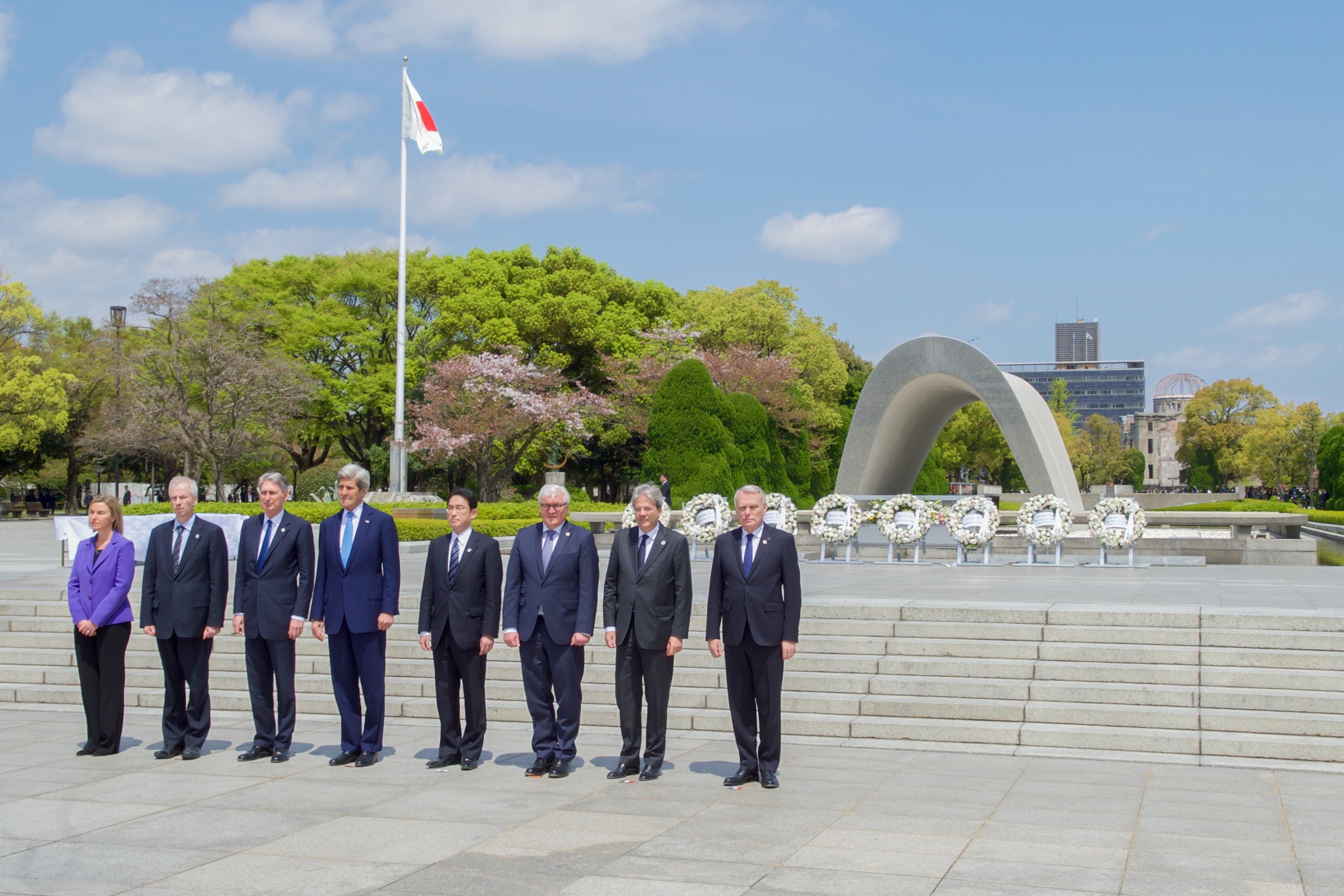 U.S. Secretary of State John Kerry and Japanese Foreign Minister Fumio Kishida stand with their counterparts on April 11, 2016, after they laid wreaths at the Hiroshima Peace Memorial Park to commemorate the atomic bomb blast that ended the World War II Pacific campaign during a break in the G7 Ministerial Meetings in the city. [State Department Photo/Public Domain]